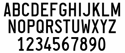 Typography used in Switzerland registration plates.